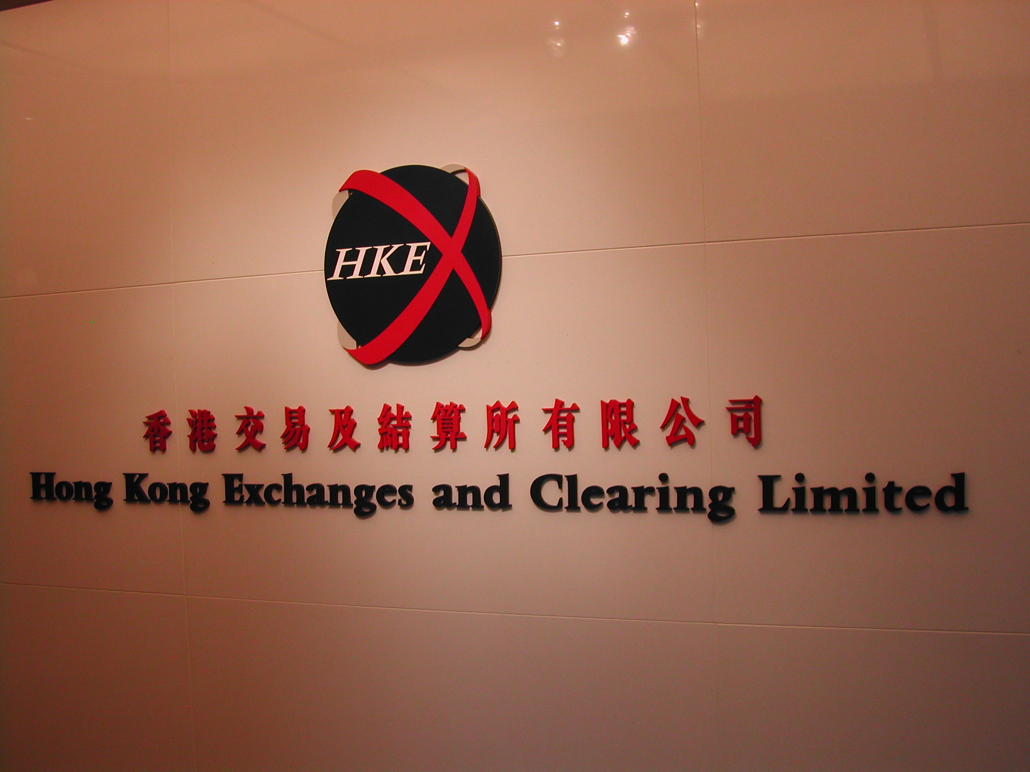 Hong Kong Stock Exchange